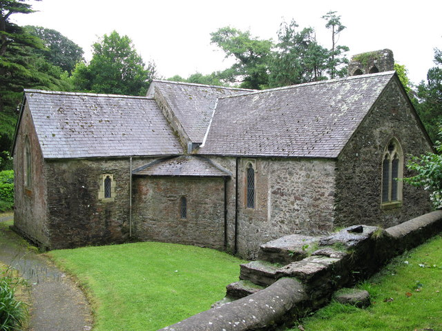 St Ishmael's Church Built in 1100AD the church is dedicated to a 6th century Cornish Saint who was a disciple of St David.